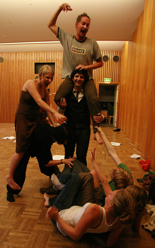 Photo of parts of the theatrical ensemble 'Lunds nya Studentteater' during early rehersals for the autumn 2006 play of 'Dante's Divina Commedia'.